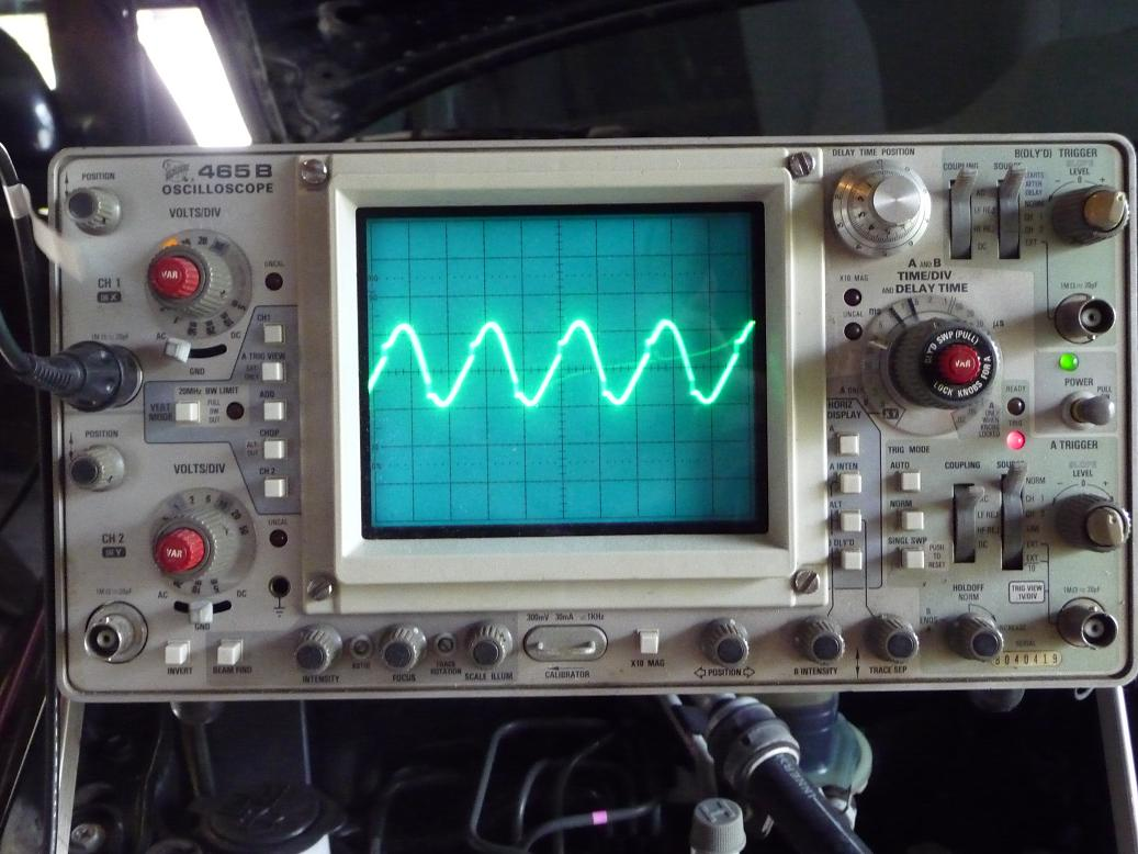 RAV4 Tach - 750 rpm